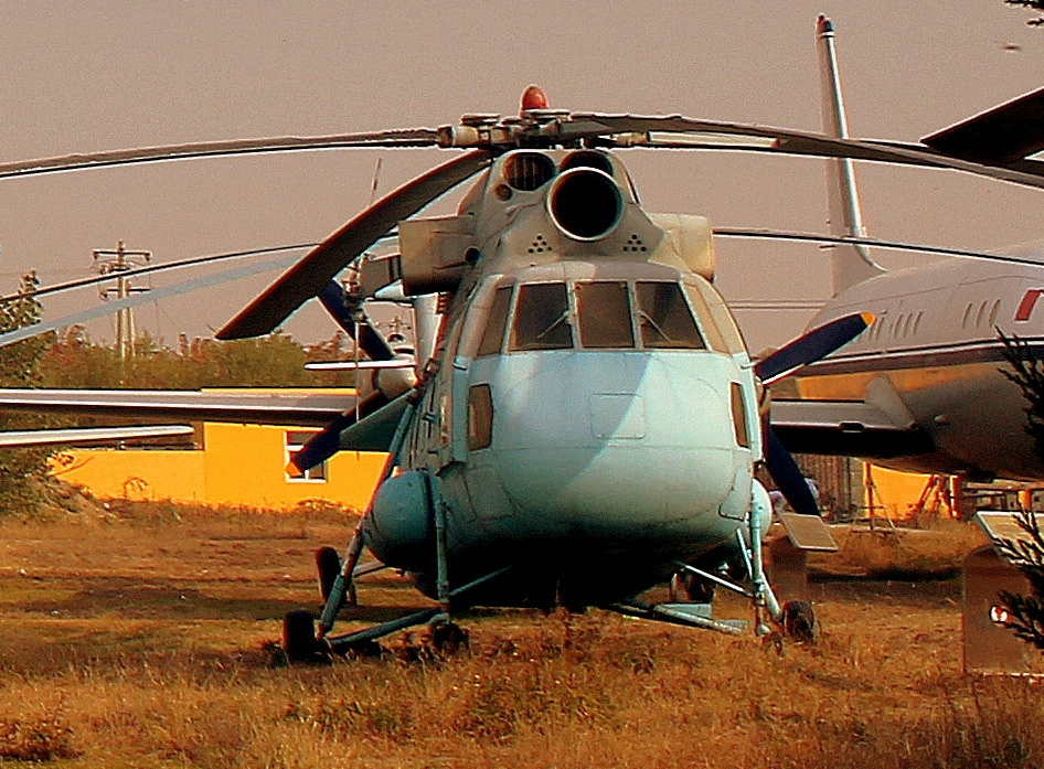 THE DATANSHAN AVIATION MUSEUM BEIJING CHINA OCT 2012